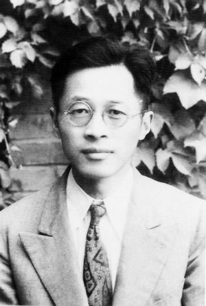 Portrait photo of the nuclear physicist Wang Gangchang in the early 1950s.